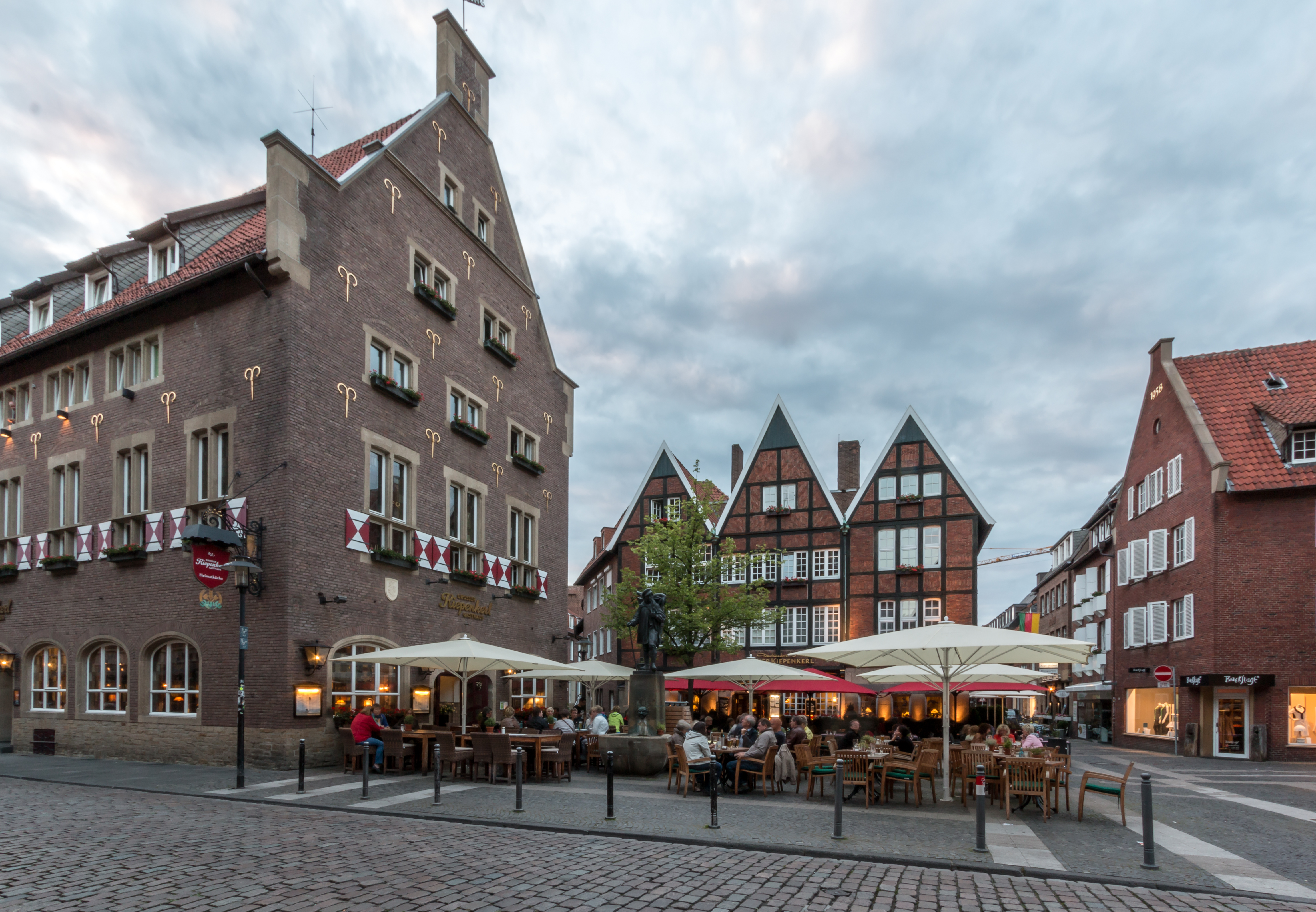 Kiepenkerl monument (August Schmiemann, 1896) and restaurant “Großer Kiepenkerl” at Spiekerhof, Münster, North Rhine-Westphalia, Germany Sculpture TitleKiepenkerldenkmalArtistAugust SchmiemannDate1896